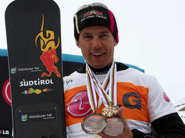 Roland Fischnaller in the snowboard World Cup in Arosa.